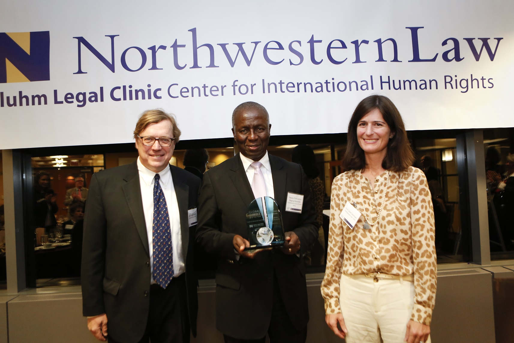 The presentation of the 2013 Global Jurist Award to Deputy Chief Justice Dikgang Moseneke of the Constitutional Court of South Africa